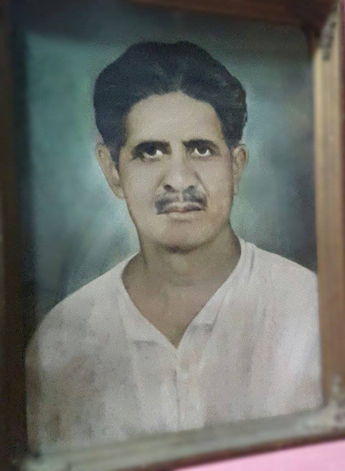 Late Syed Hussain Shah Bukhari